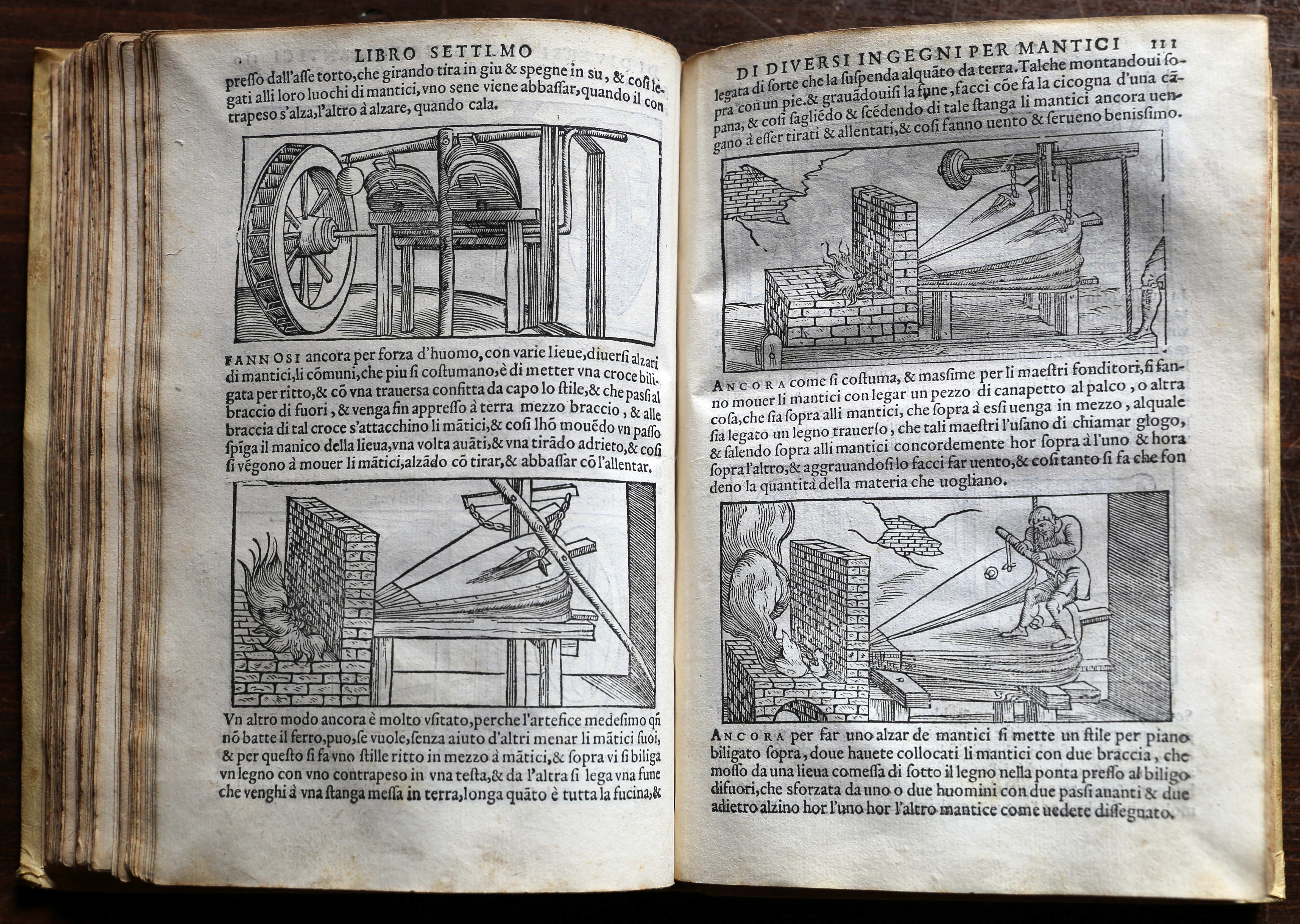 Pirotechnia (Crusca)